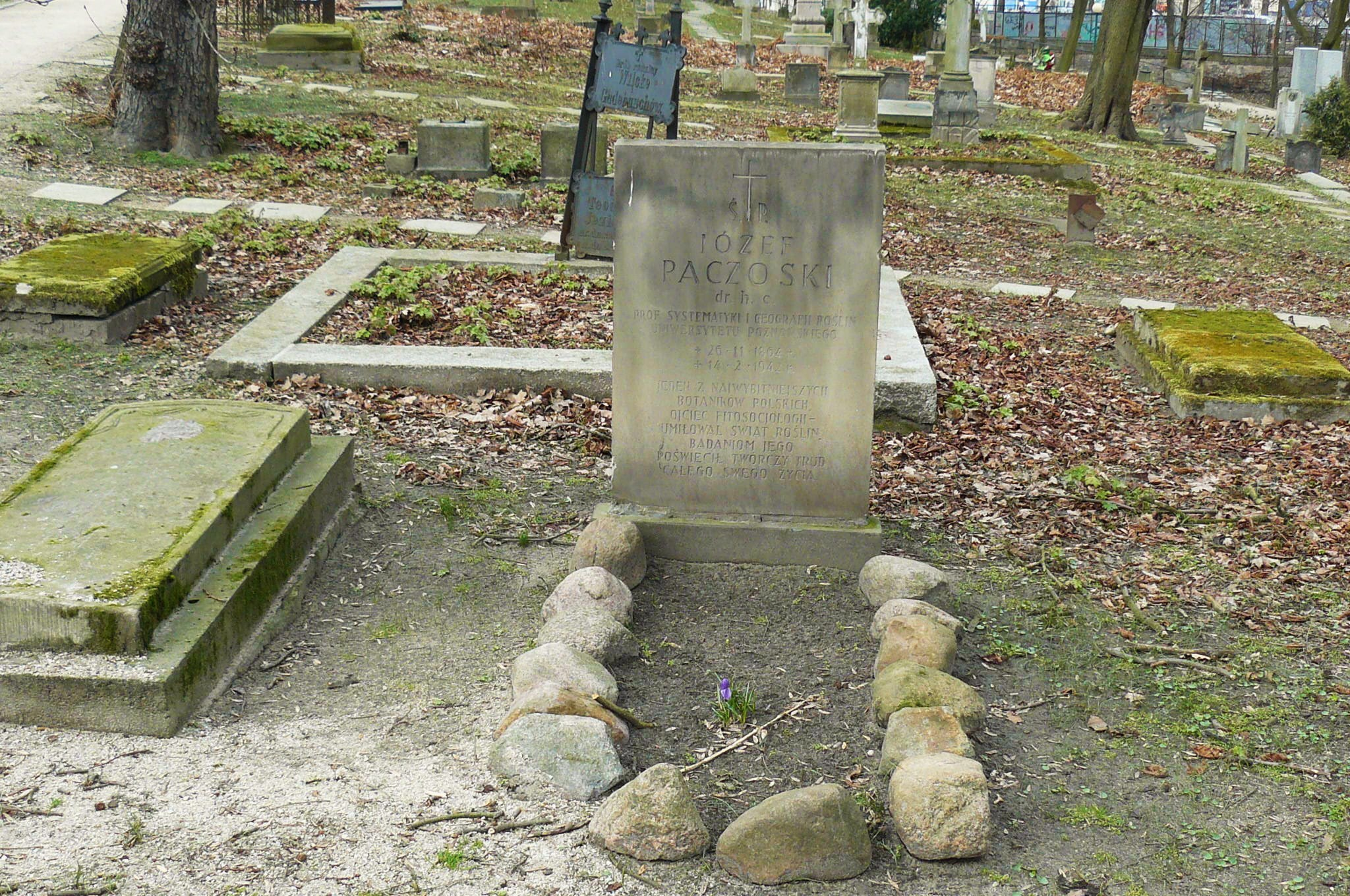 Jozef Paczoski Tomb in Poznan.